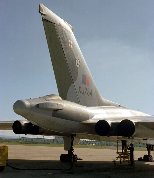 Avro Vulcan XJ784 at CAF base Bagotville in 1978.